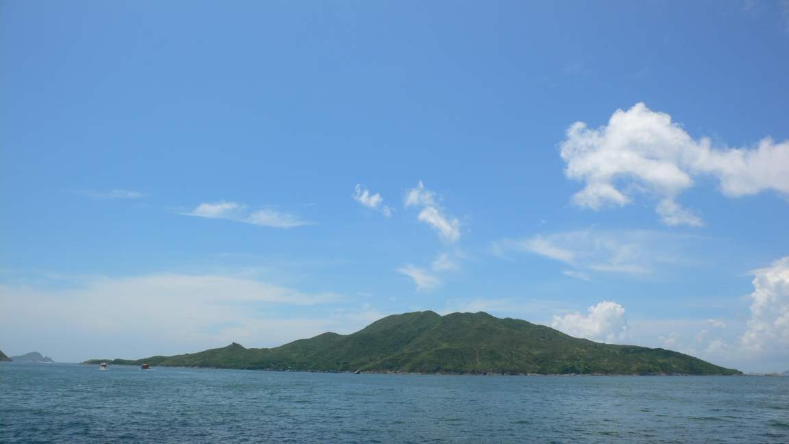 Tung Lung Chau, an outlying island in Hong Kong. This photo was taken from the west of the island.